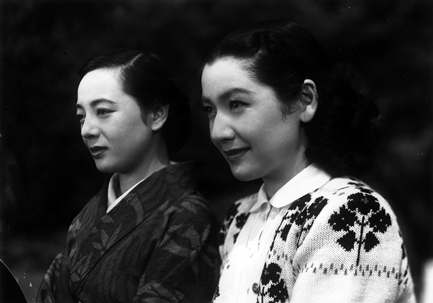 Setsuko Hara in 1951 Japanese movie Early Summer (麦秋, Bakushū).